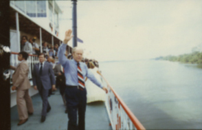 The photo contact sheet, identified as B1651 by the White House Photographic Office (WHPO), is housed at the Gerald R. Ford Presidential Library, a branch of the National Archives and Records Administration (NARA). This file is a 200 dpi photo contact sheet having images from roll of film B1651 of the August 9, 1974 - January 20, 1977 Gerald R. Ford White House Photographic Office Series A0001-A9999 and B0001-B2886 photographs. The date on the photo contact sheet is the date the roll of film was processed, not necessarily the date the photographs were taken. See table below for additional details.